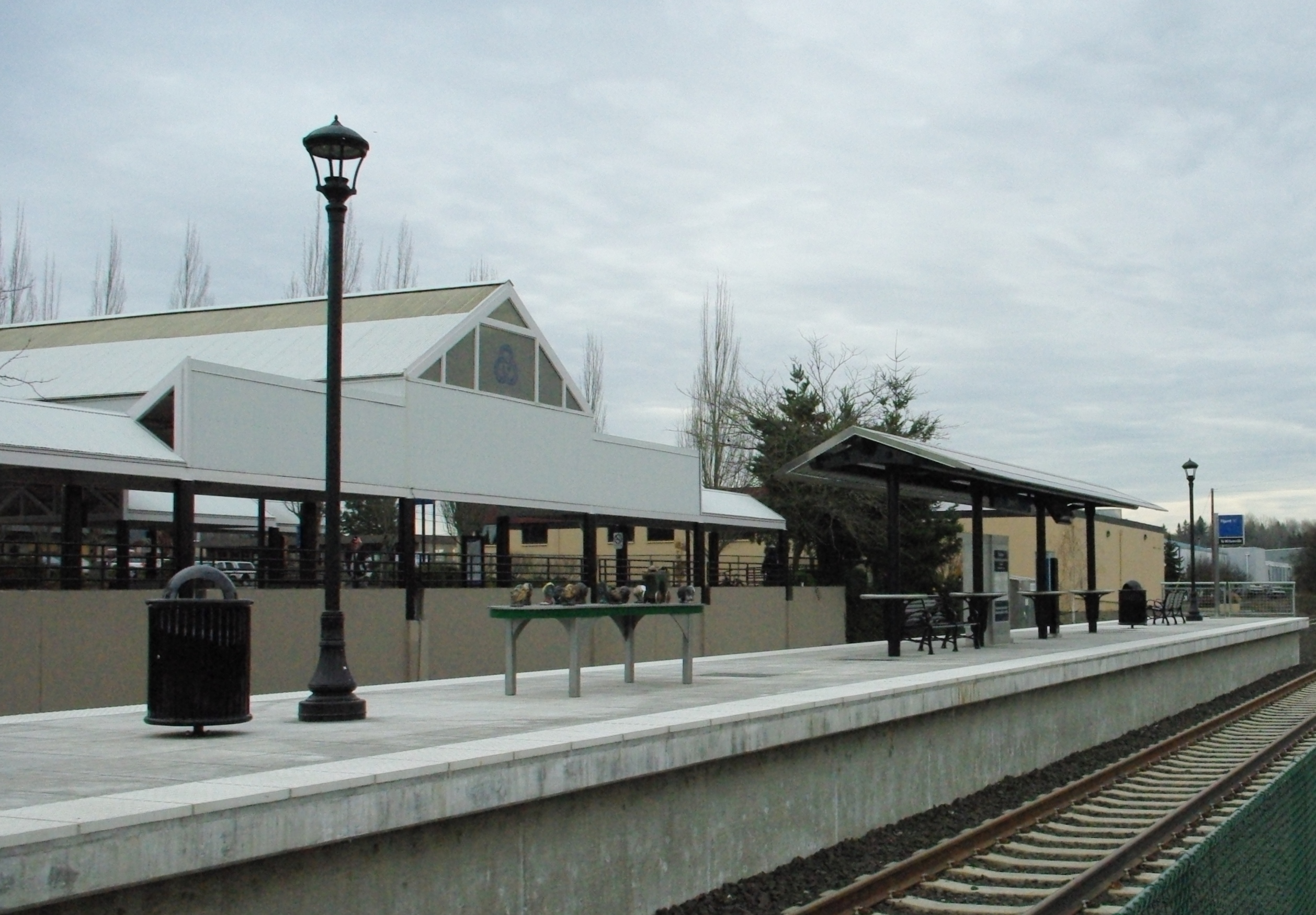 The Tigard Transit Center commuter-rail station, in downtown Tigard, Oregon, with the transit center's 1988-opened bus portion in the background.